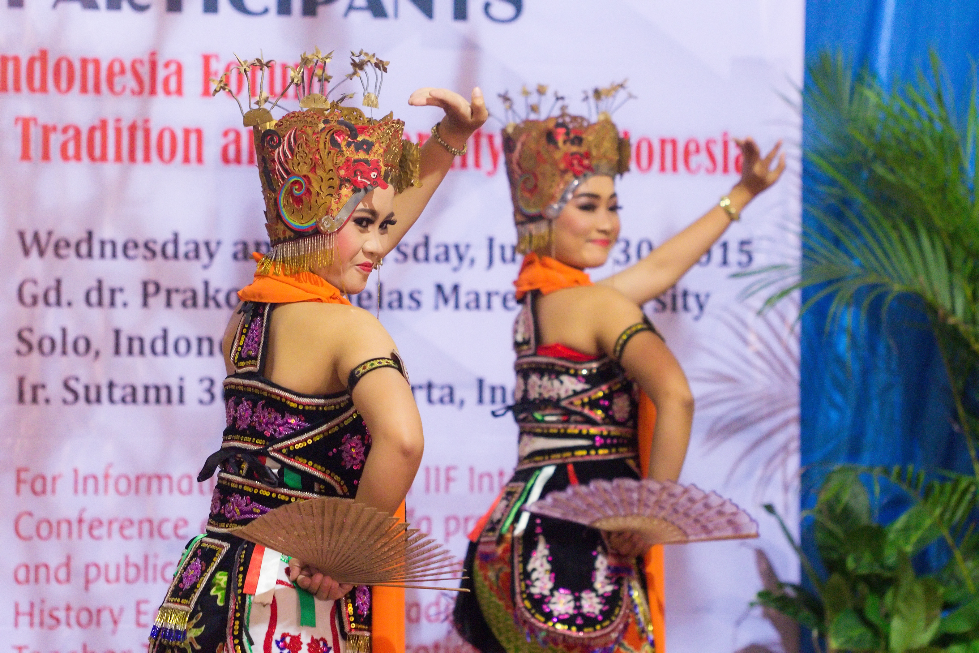 Students of Sebelas Maret University dancing the Jejer Dance at the welcome dinner for International Indonesia Forum speakers, 2015-07-29